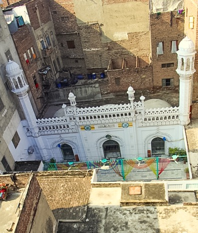 Neevin Masjid This is a photo of a monument in Pakistan identified as the PB-103-A